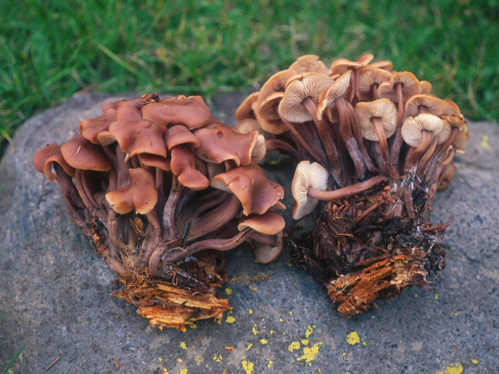 Fruit bodies of the fungus Connopus acervatus (formerly in the genus Gymonopus). Photographed in White Mountains, Arizona, USA.